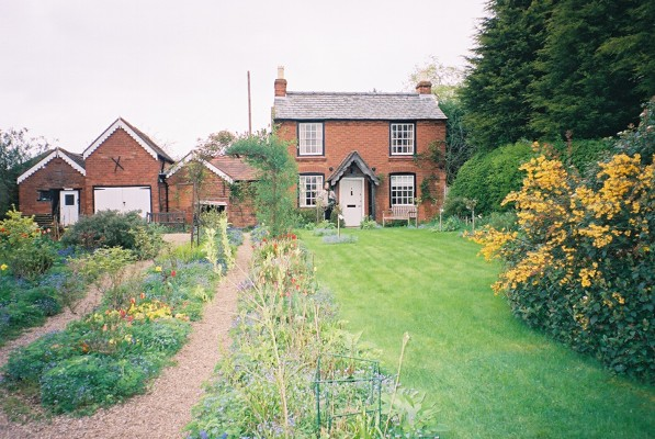 Birthplace of composer Edward Elgar, now a museum, at Broadheath, near Worcester, Worcestershire, England.